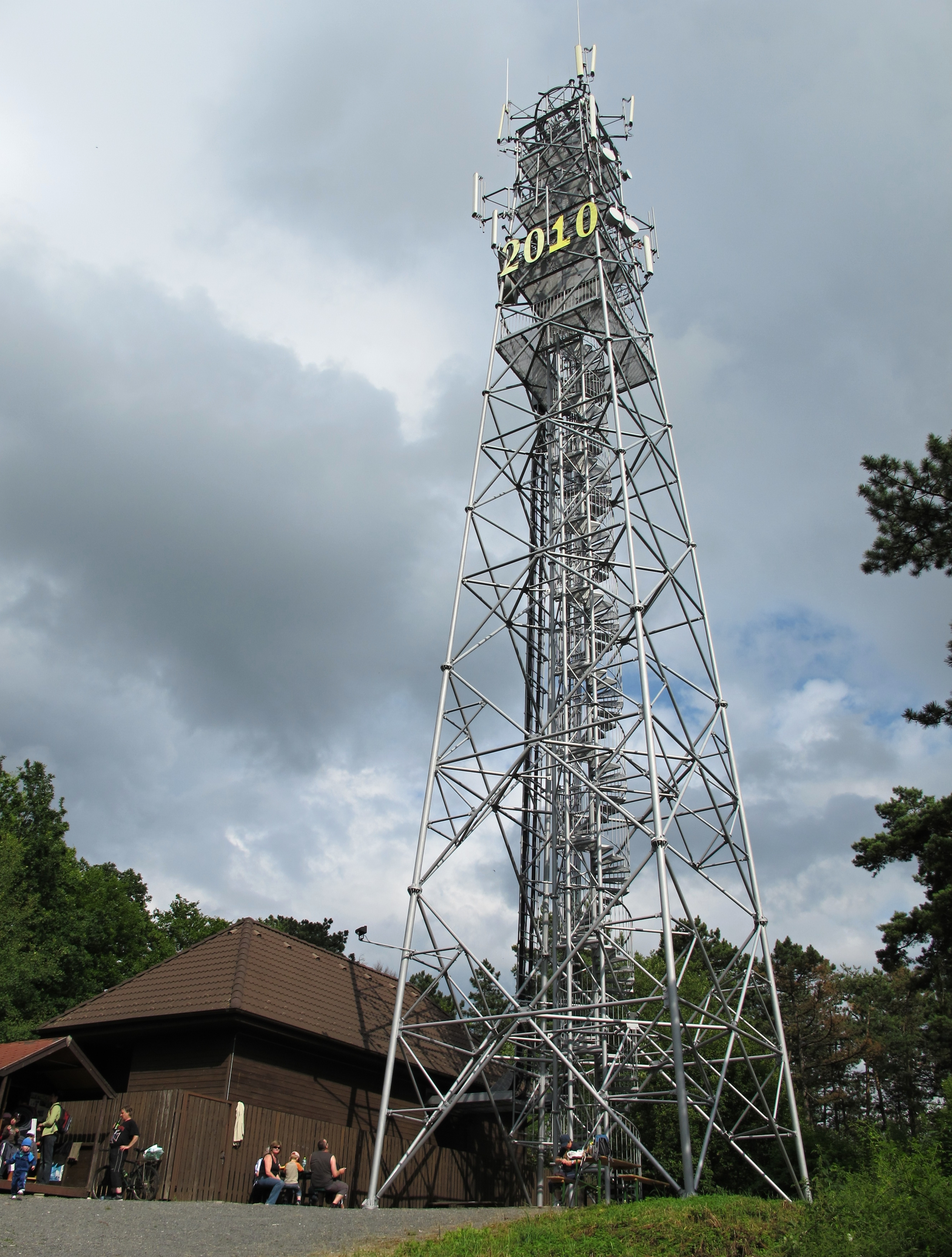 Lookout tower on the Veselý kopec on the riverside of the Vltava river, near Mokrsko in Příbram District (Czech Republic)